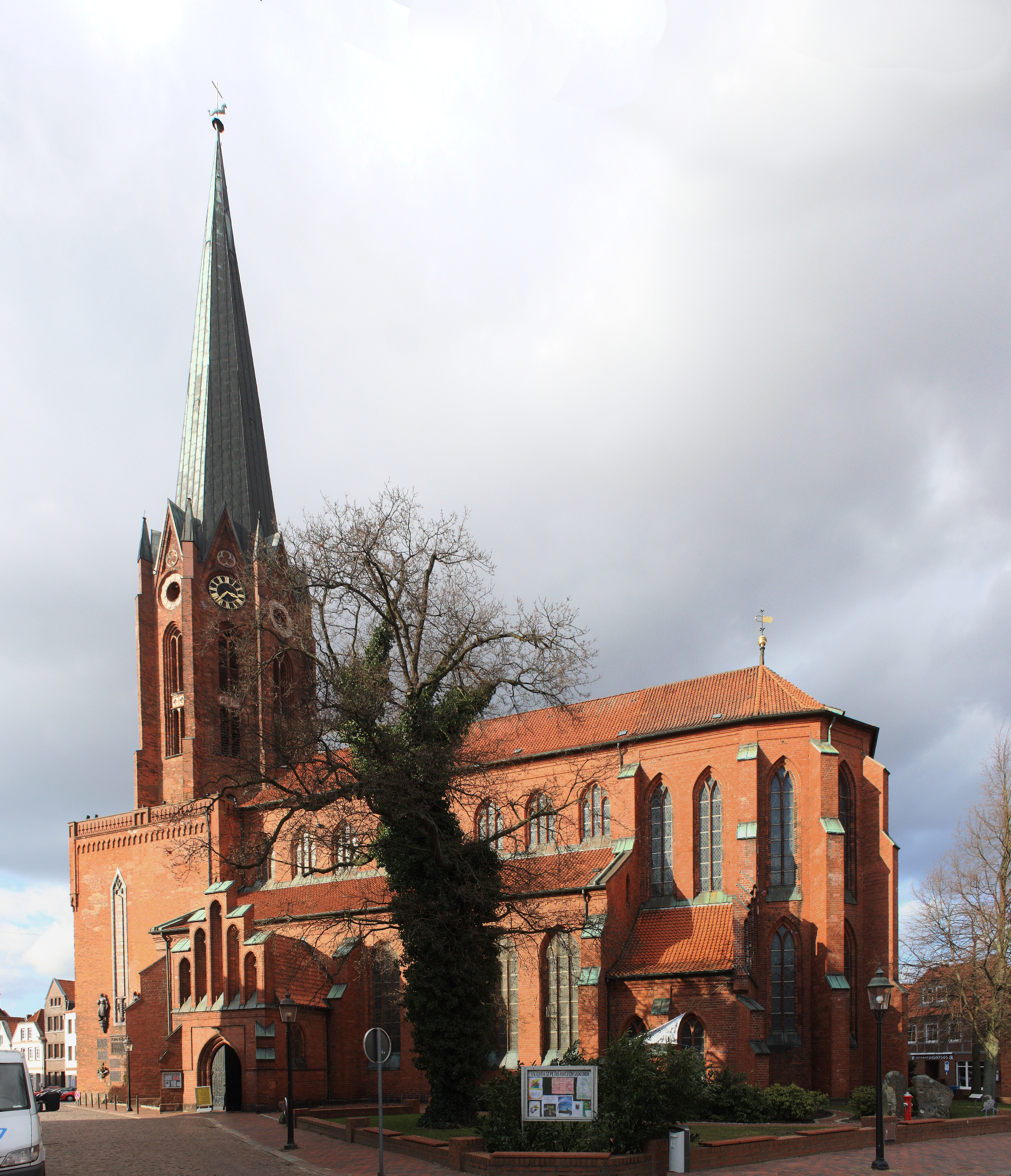 St. Peter's Church in Buxtehude